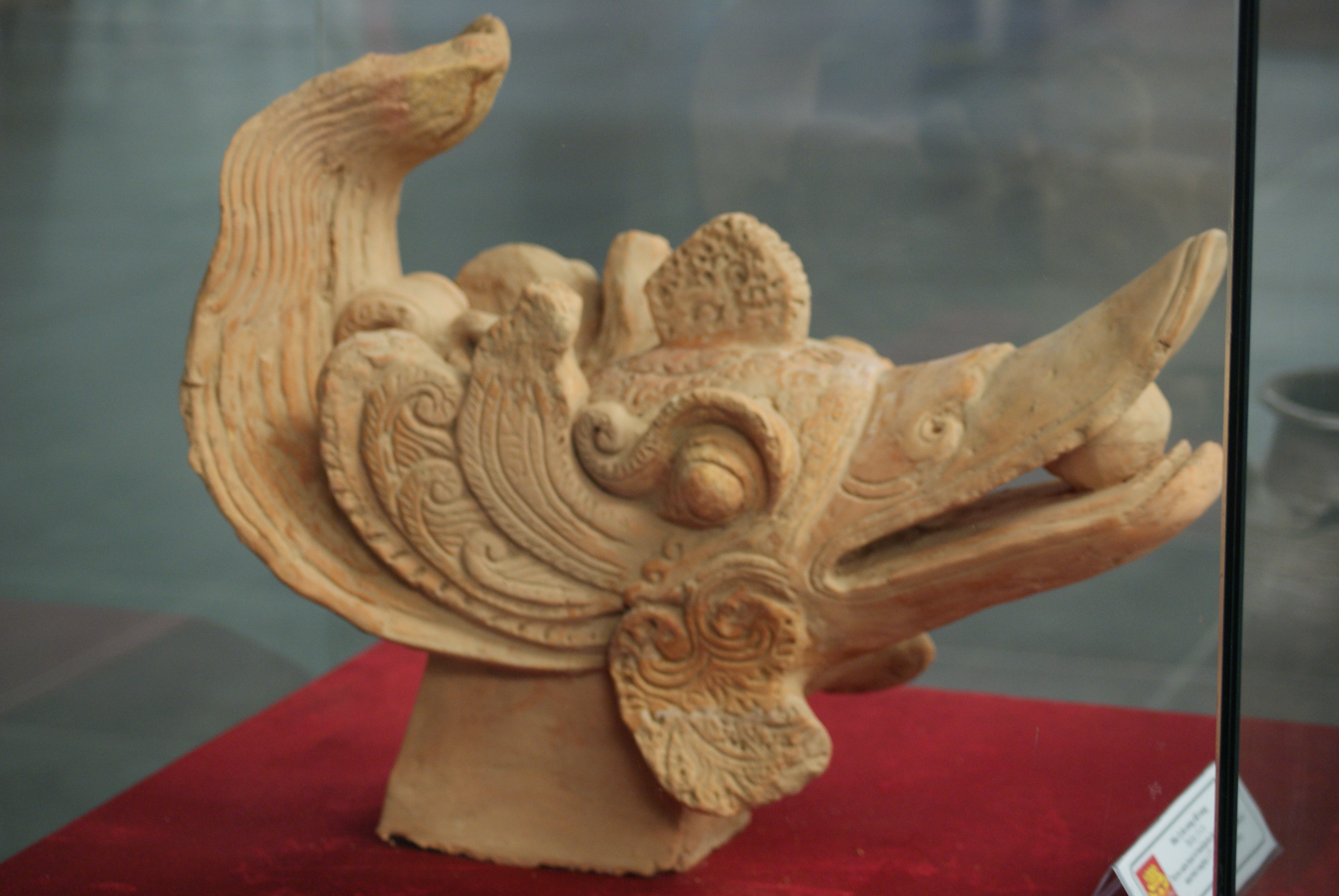 Terracotta Swan